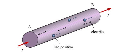 Electric conduction